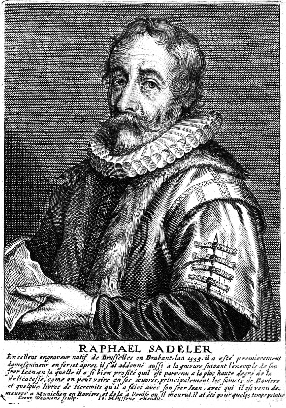 Het Gulden Cabinet, painter biographies by Cornelis de Bie for the Antwerp publisher-engraver Jan Meyssens, 1662 Raphael Sadelar p 465